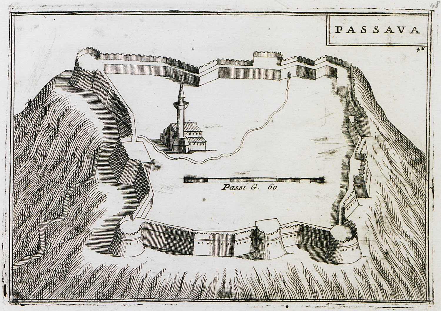 Vincenzo Coronelli. Memoire istoriografiche delli regni della Morea e Negroponte, Venice, 1686